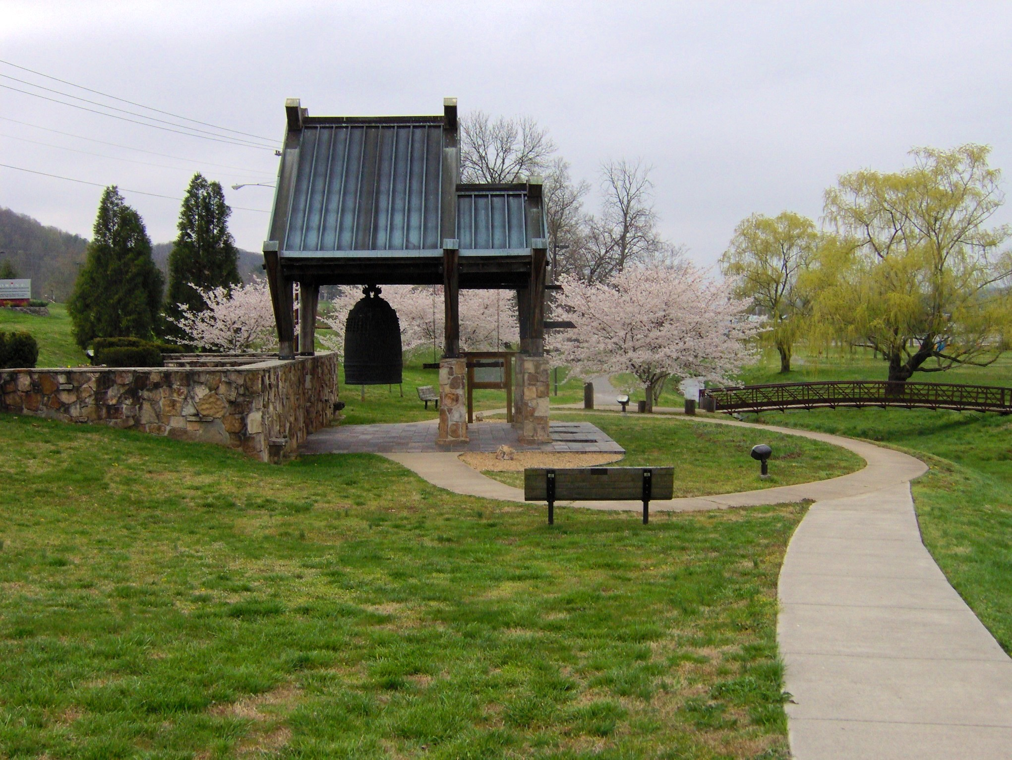 The Peace Bell at the Oak Ridge Civic Center in Oak Ridge, Tennessee, in the southeastern United States. The bell was designed by the residents of Oak Ridge and cast in Japan.